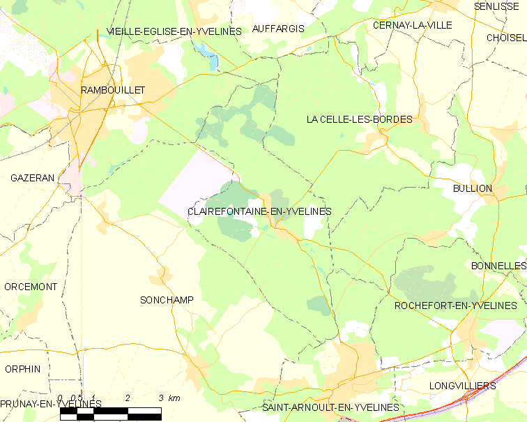 Map of French municipality Clairefontaine-en-Yvelines